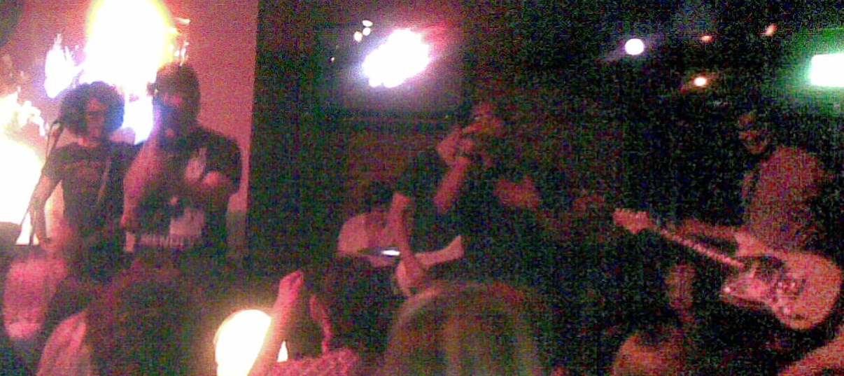 MC Lars performing with Wherewolves (formerly A Year to Remember) at Bang! Nightclub in Melbourne, May 2009.